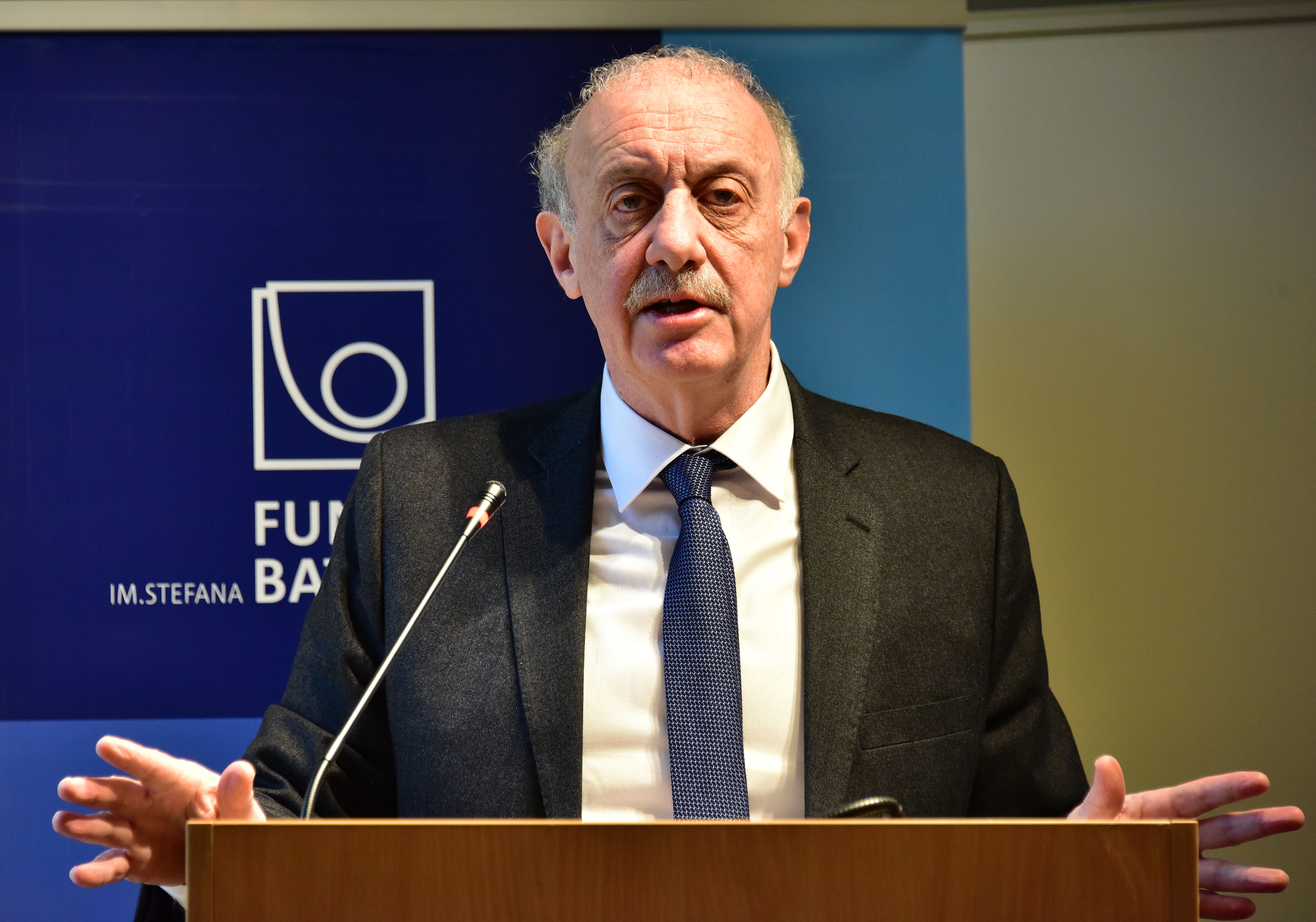 Professor Samuel Issacharoff (New York University) during his keynote speech at Fundacja Batorego in Warsaw, Poland